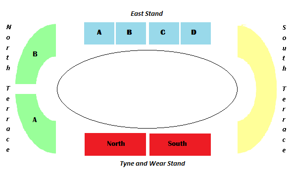 A diagram marking the layout of the athletics arena at Gateshead International Stadium in Felling, Tyne and Wear, England